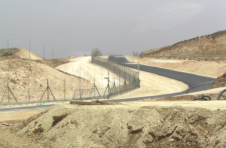 Israeli West Bank Barrier - North of Meitar, near the south west corner of the West Bank photographed by Eman May 2006 (UTC), May 2006